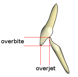 Frontteeth: overjet and overbite